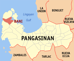 Map of Pangasinan showing the location of Bani